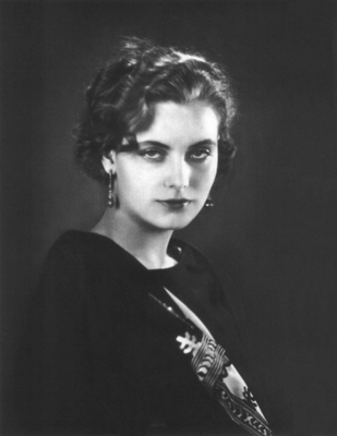 Greta Garbo in The Joyless Street (Die freudlose Gasse). Alexander Binder (for Atelier Binder) made the portrait during the filming.